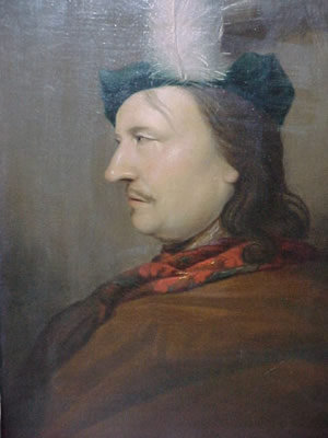 Christoph Paudiss, portraited by himself